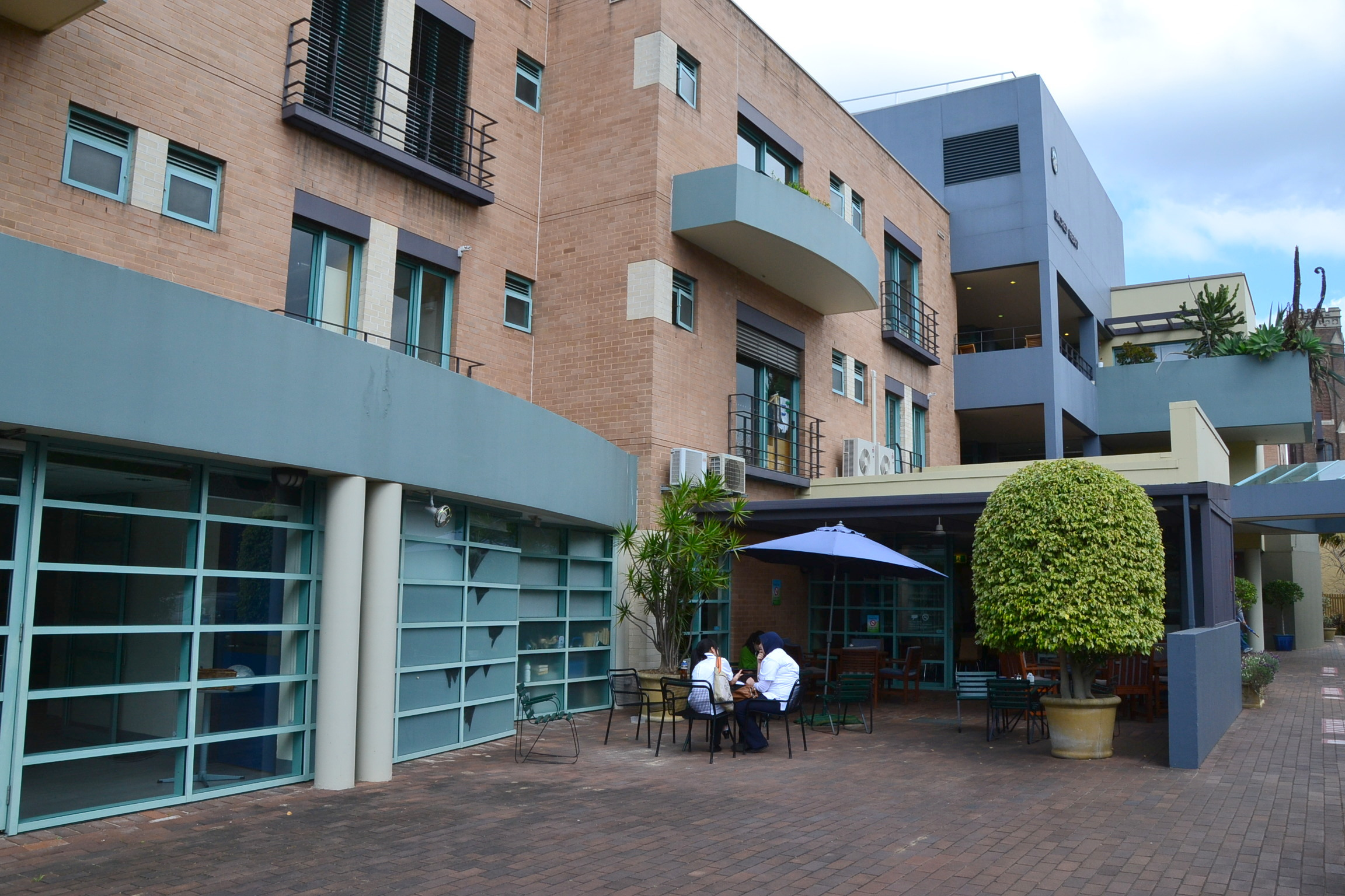 sacred heart hospice, sydney